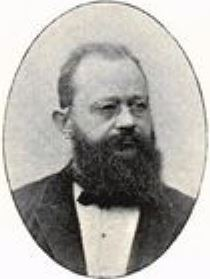 Herman August Atterberg (1851-1929), Swedish engineer